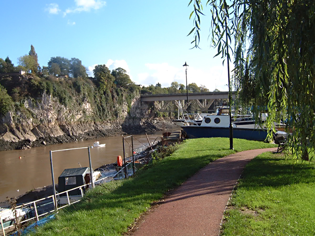 Chepstow - Path along The Back. The A48 road bridge can be seen in the distance.